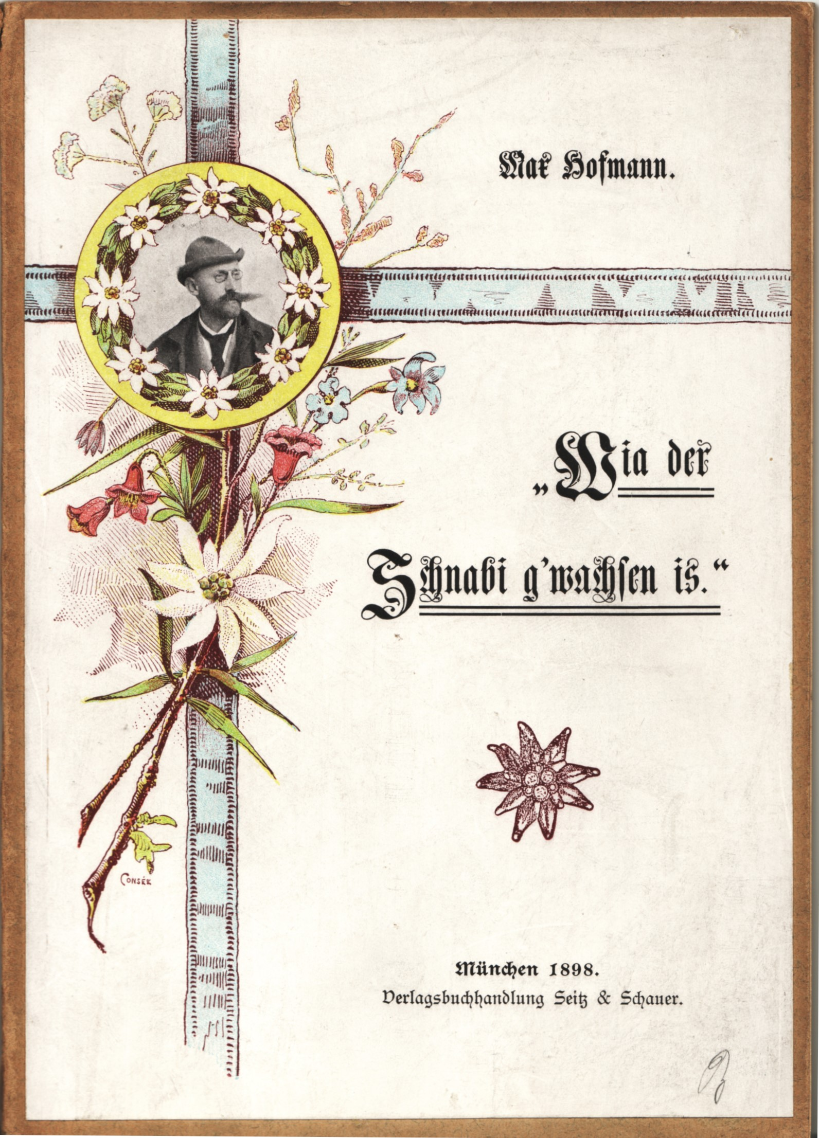 title page of collection of poems published in 1898